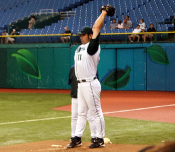 At Hideo Nomo's 200th win vs. Milwaukee in 2005. 23:33, 11 April 2007 . . CFIF . . 350×304 (214,572 bytes)